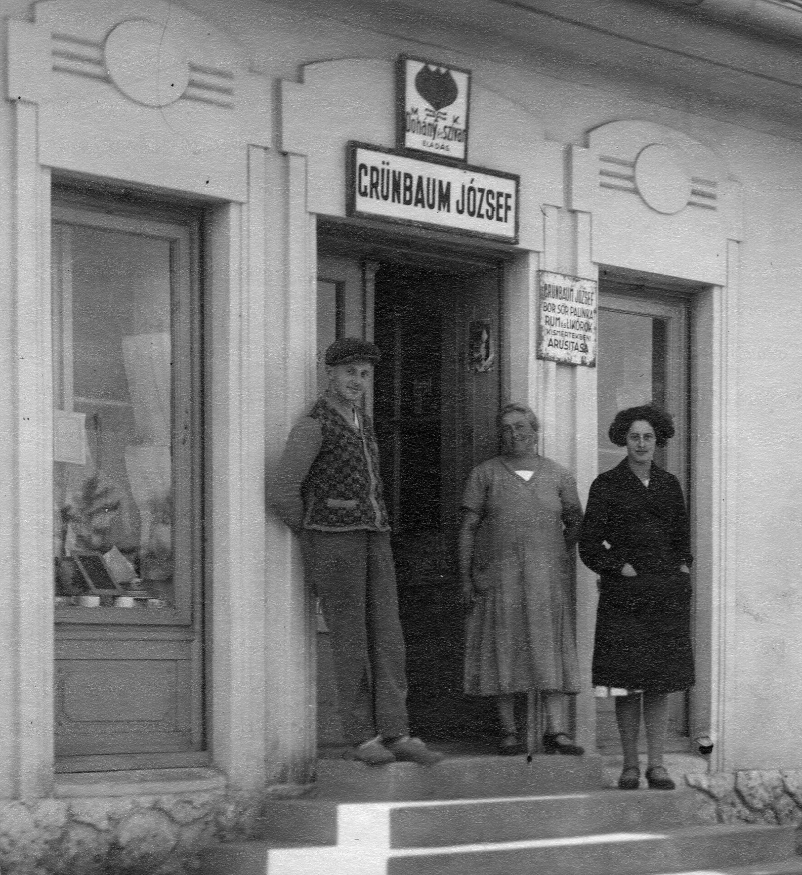 Some of the Grünbaums in front of their minuscule shop. To the right Johann Schediwy's fiancée